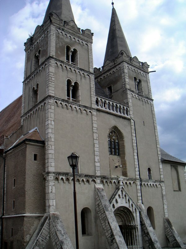 St. Martin's Cathedral at Spisska Kapitula. I took this photo.